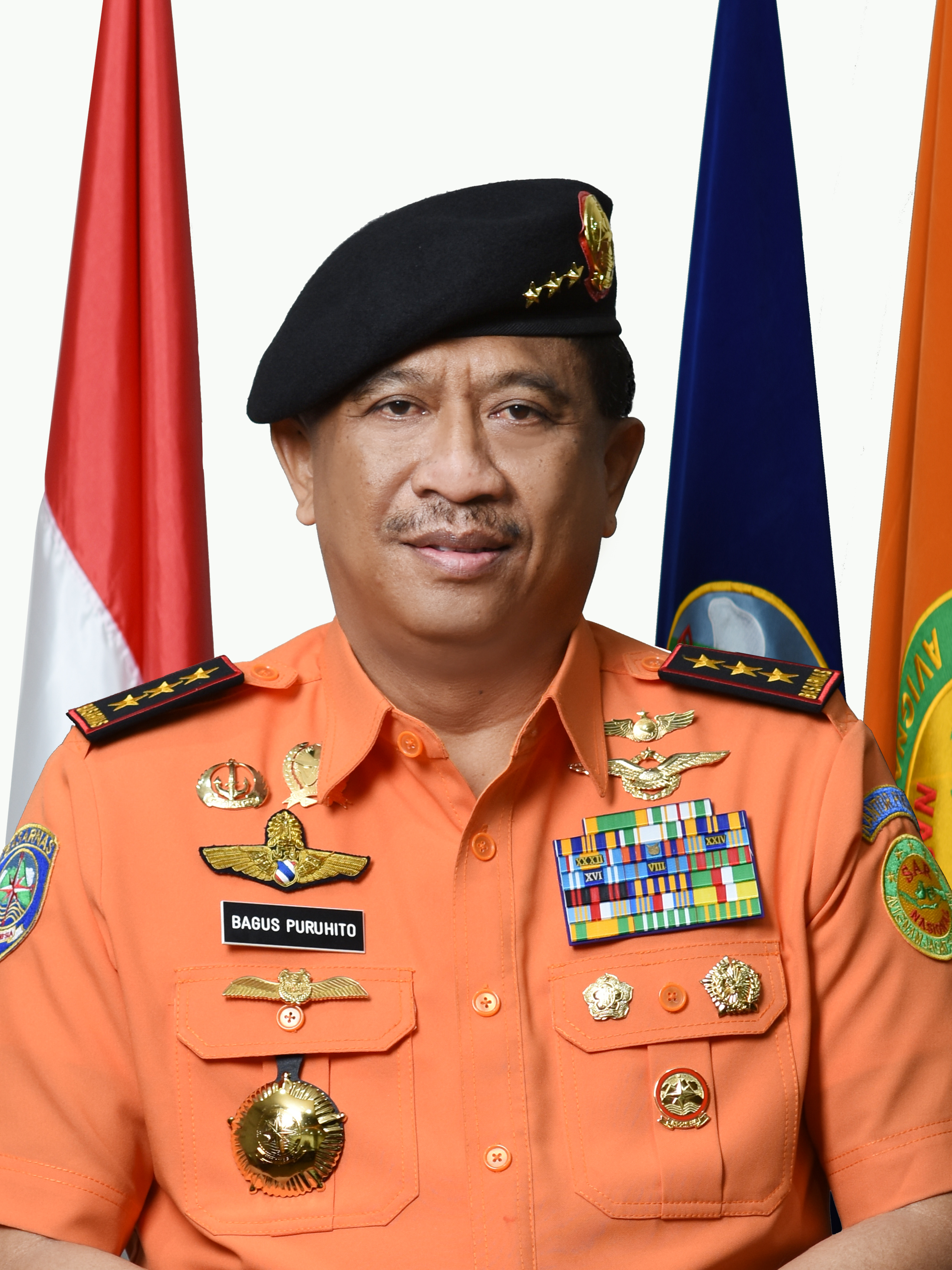 Bagus Puruhito as Chief of National Search and Rescue Agency (2019)